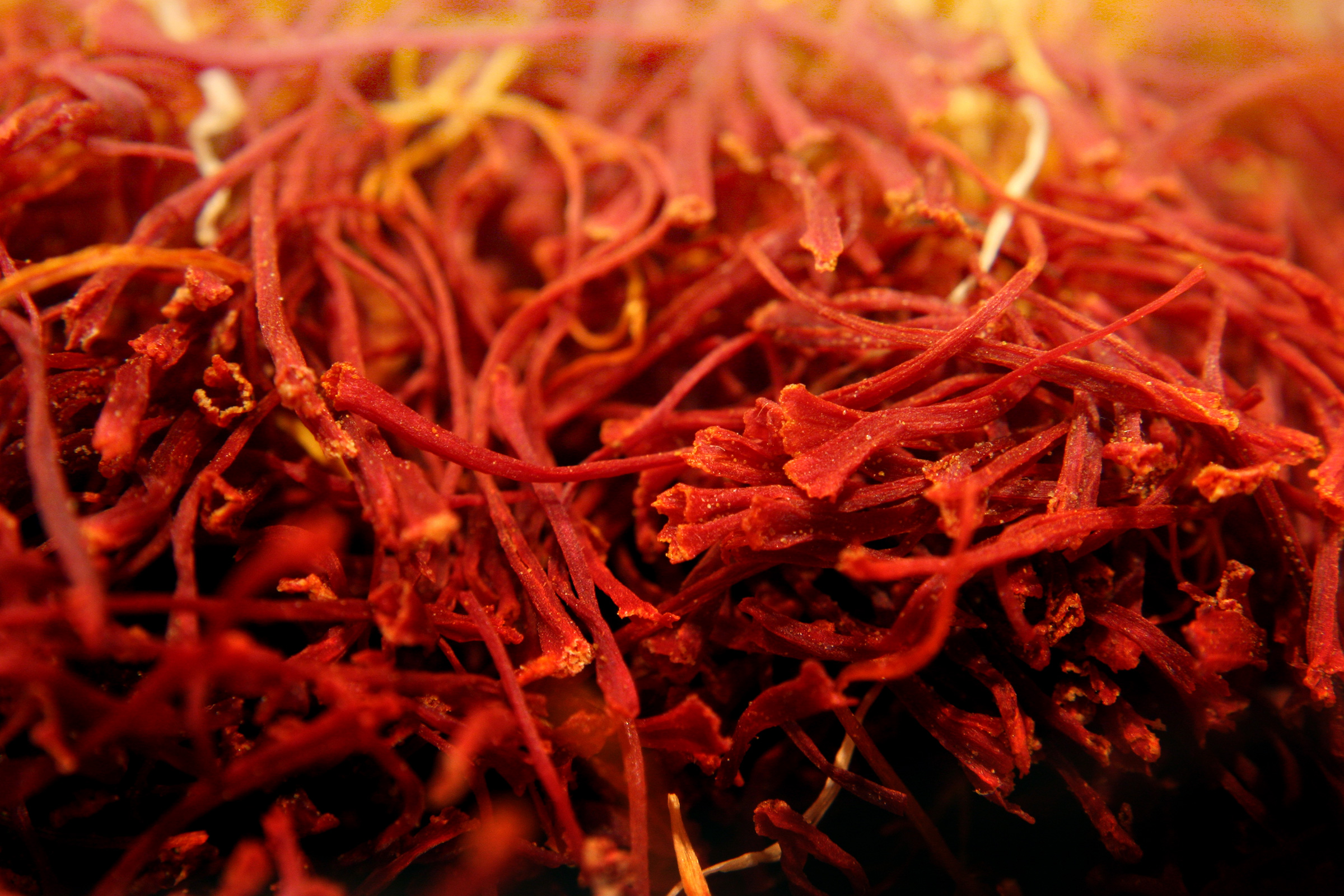 Dried Saffron flower stigmas, from saffron farms, Torbat-e-Heidariyeh, Razavi Khorasan province, Iran - Photo by: Safa Daneshvar